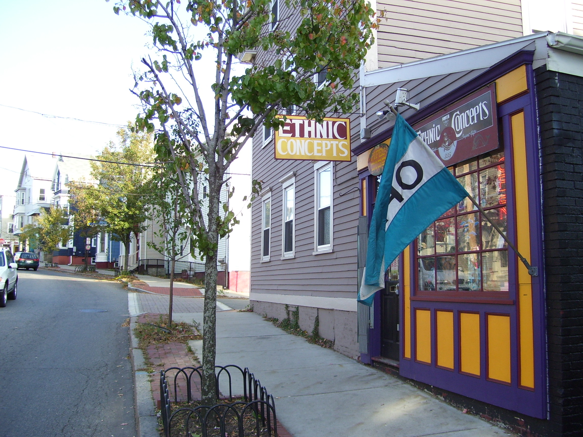 My 2008 photo of Wickenden Street. In the foreground is the shop Ethnic Concepts.